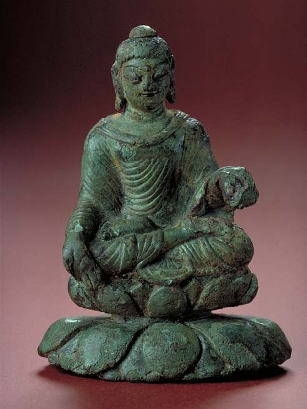 Photograph of the Helgö Buddha at the Statens historiska museum